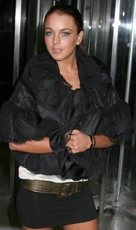 Lindsay Lohan at Calvin Klein Spring 2007 Fashion Show Afterparty.